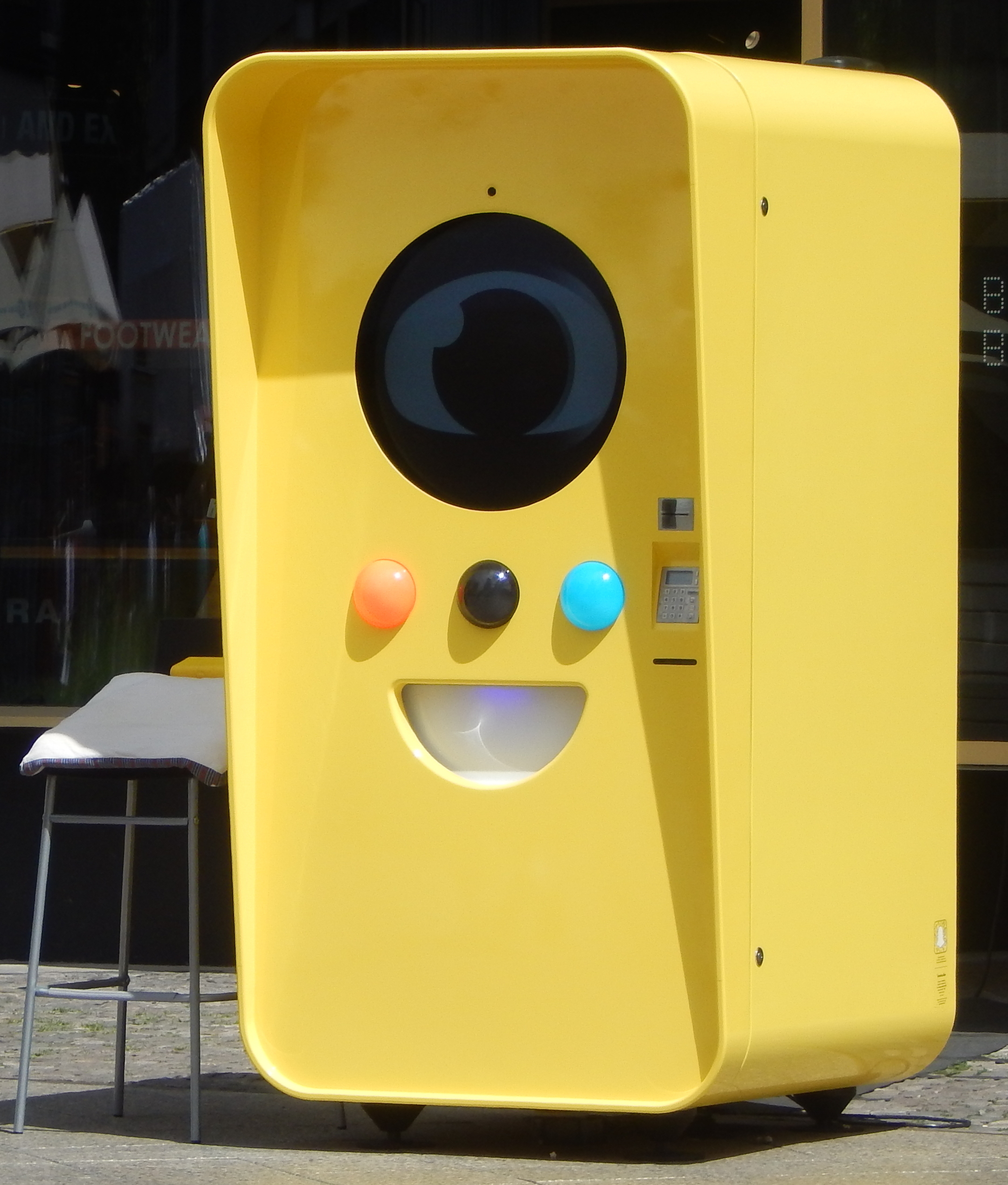 Snapbot, Berlin, between Breitscheidplatz and Bahnhof Zoo, on june 14th 2017 at two in the afternoon